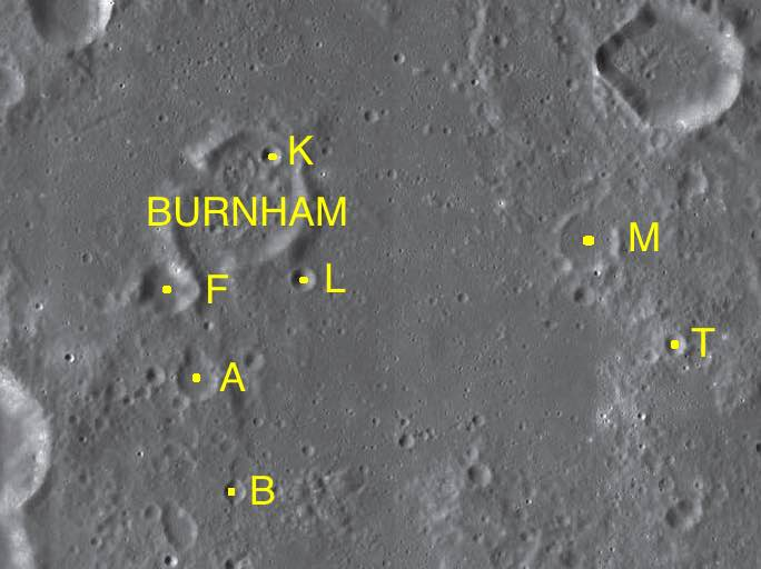 Part of the chart LAC-77 used for the presentation